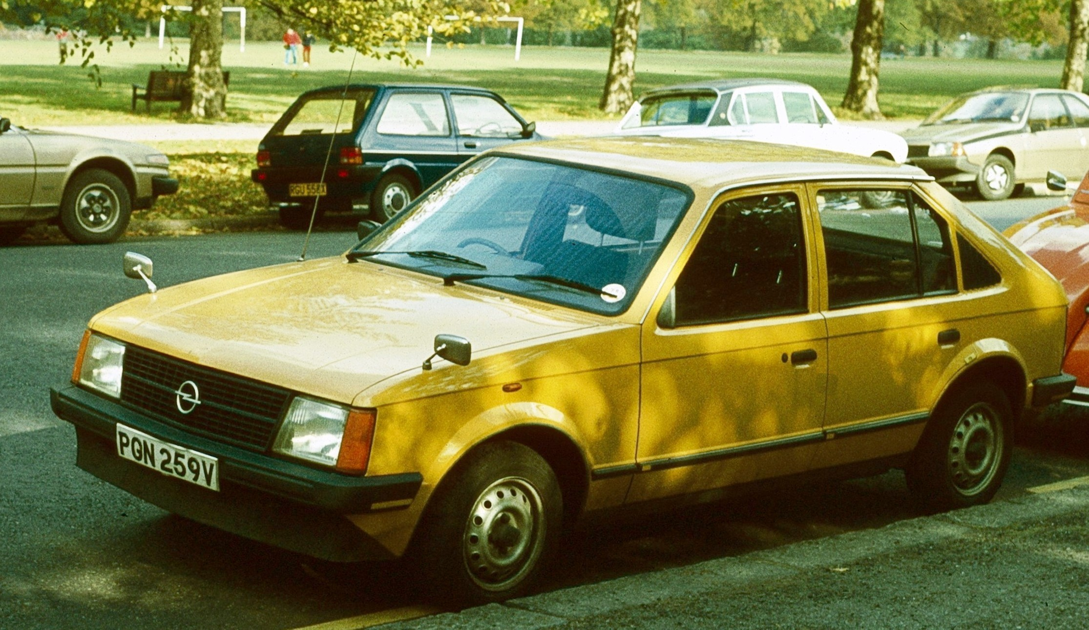 Opel Kadett D 1980 According to the UK tax collectors' database (DVLA) the car had a 1297cc engine. It was first registered on 14 May 1980, and ceased to be taxed for use on public roads on 1 October 1994. Reflections on the windscreen indicate that it was a "toughened zone" screen, then mainstream, but in retrospect seriously nightmarish if hit by a sharp stone while driving. Also noteworthy is the positioning of exterior wing mirrors on the exterior wings. Before 1980, regulations had been introduced requiring that, for new cars, an exterior mirror be placed on the drivers' side door. In an age before miniaturised motors to change the angle of the glass became widespread, it was believed that placing interior mirrors on the door made them easier for the driver to adjust correctly. This particular car appears to have both arrangements in combination, suggesting an owner who had grown used to wing mirrors on the wings and was not about to abandon then simply because the car had been delivered with a door mirror.